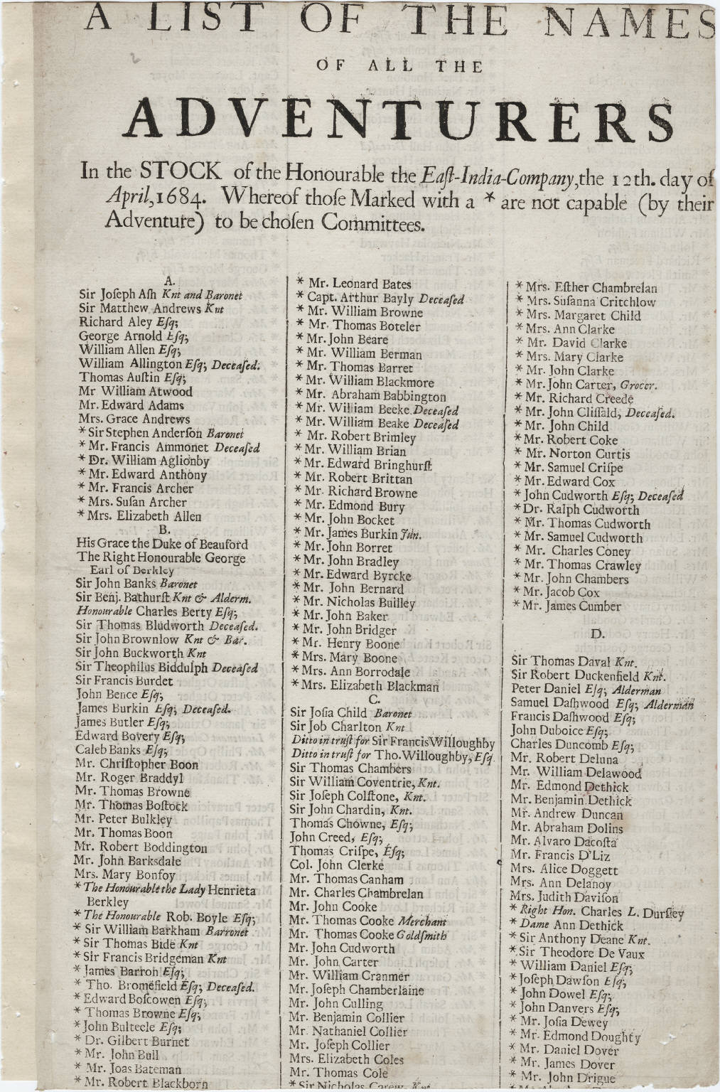 "A list of the names of all the adventurers in the stock of the honourable the East-India-Company, the 12th day of April, 1684," broadside on paper, 32 cm x 20 cm, published by the East India Company, London. Courtesy of the Beinecke Rare Book and Manuscript Library, Yale University, New Haven, Connecticut.